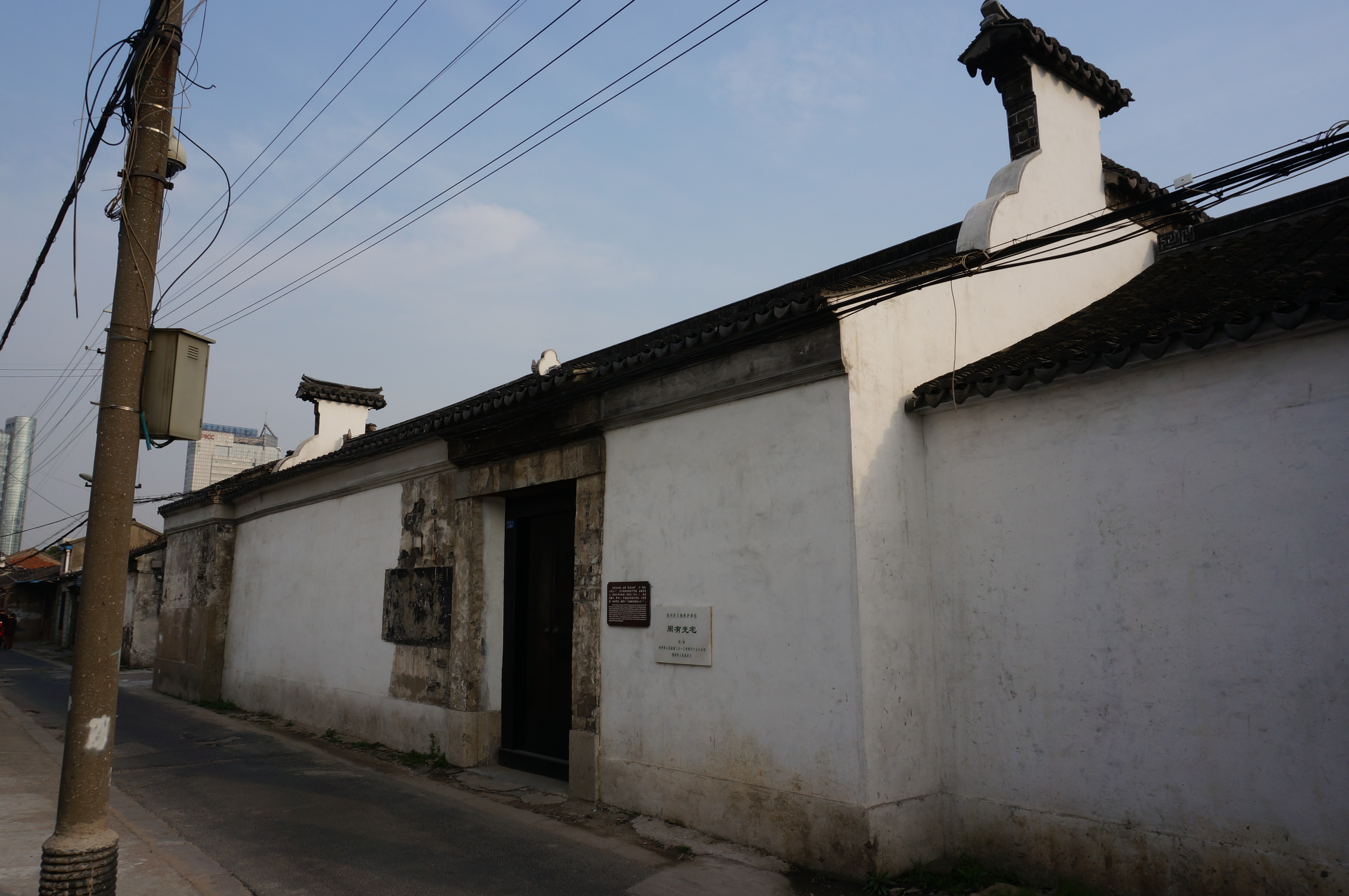 Zhou Youguang's former residence in Changzhou.